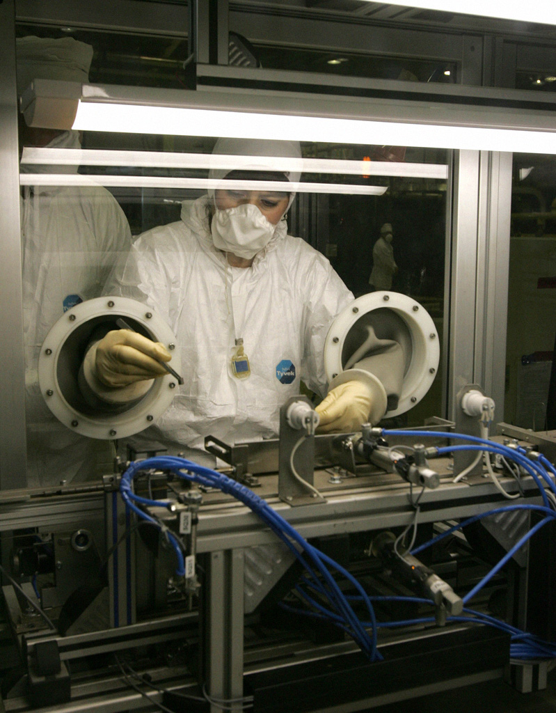 “Public company Heavy Engineering Plant”. Workshop of public company Heavy Engineering Plant in Elektrostal near Moscow. This is one of the oldest enterprises of the national nuclear sector and a major global producer of nuclear fuel.